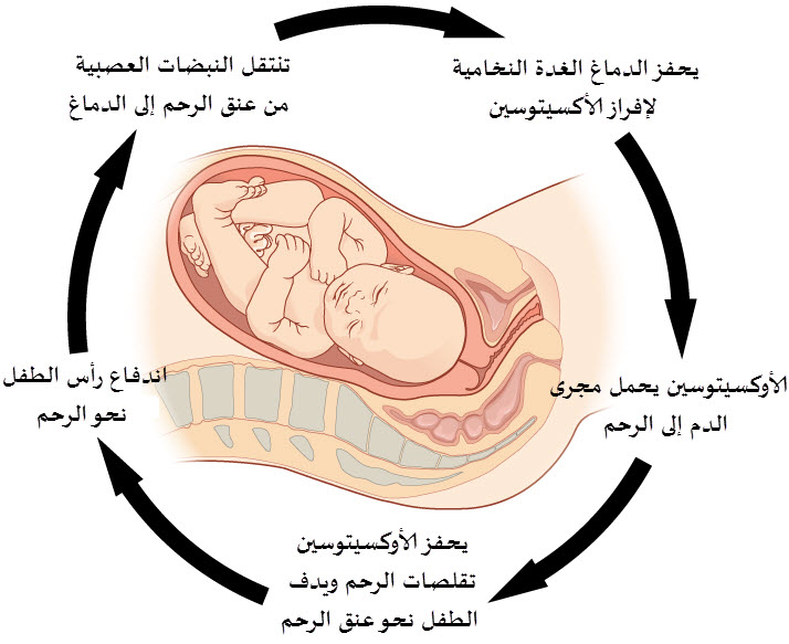 Version 8.25 from the Textbook OpenStax Anatomy and Physiology Published May 18, 2016